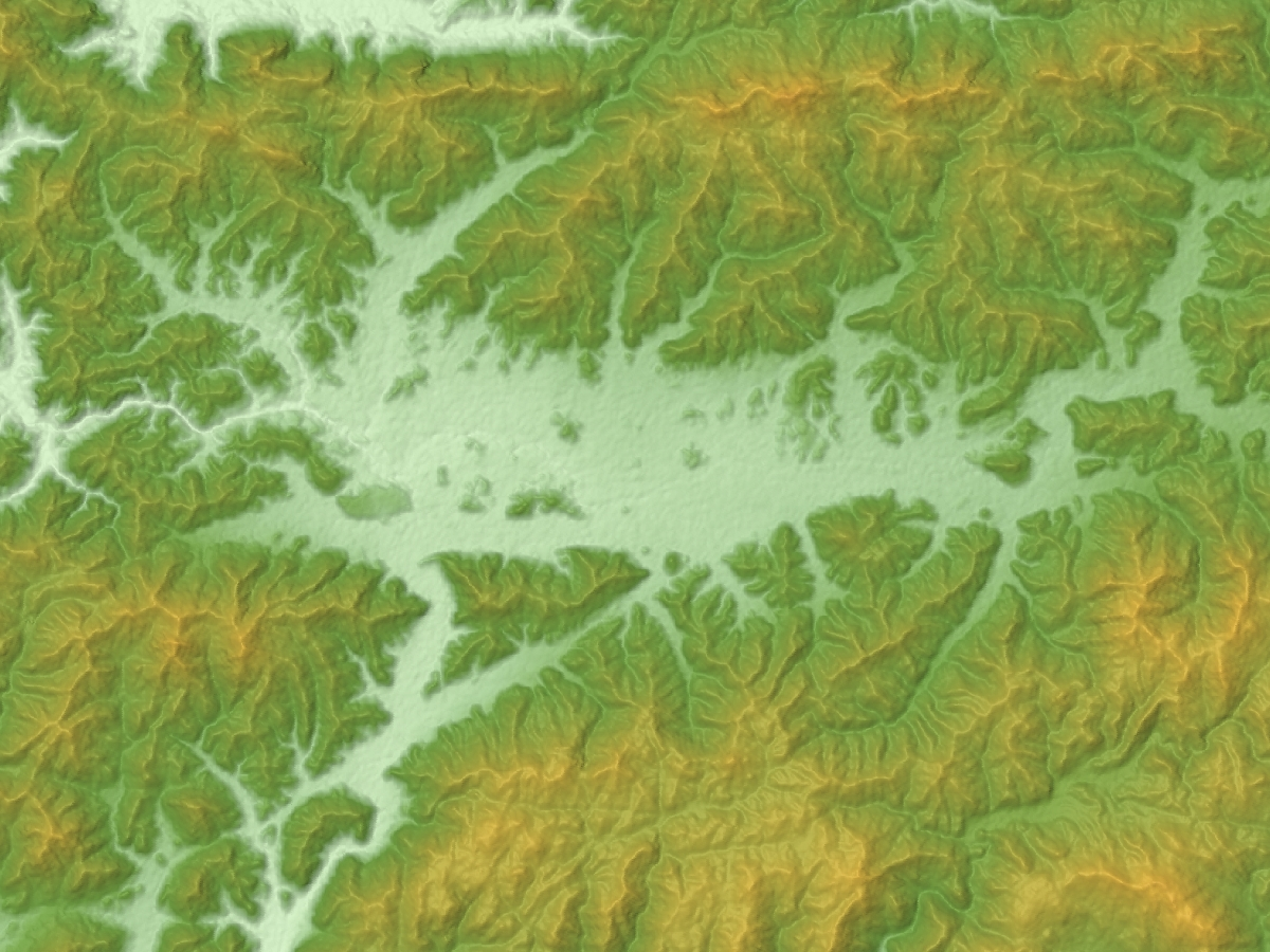 Sasayama Basin in Hyōgo Prefecture, Honshu, Japan.